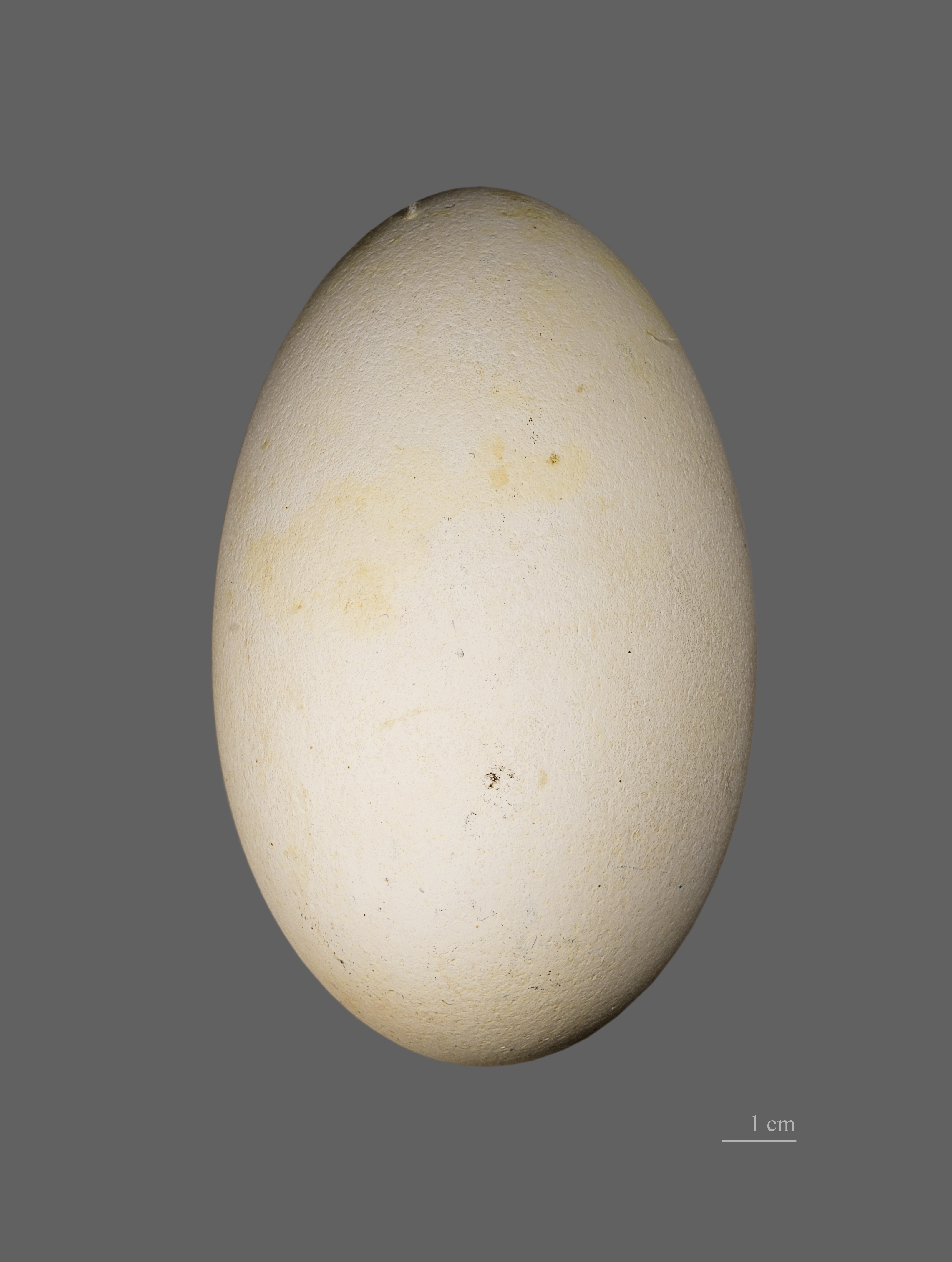 Egg of Southern Giant Petrel. Collection of René de Naurois/Jacques Perrin de Brichambaut. Locality: Falkland Islands.